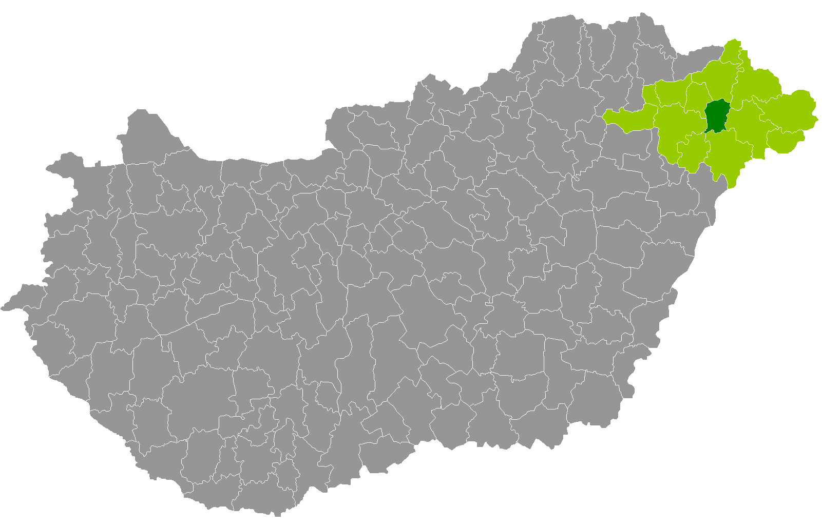 Location of Baktalórántháza District, Szabolcs-Szatmár-Bereg, Hungary